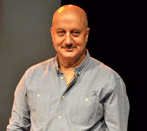 Anupam Kher at 300th show of Anupam Kher's play 'Kucch Bhi Ho Sakta Hai'